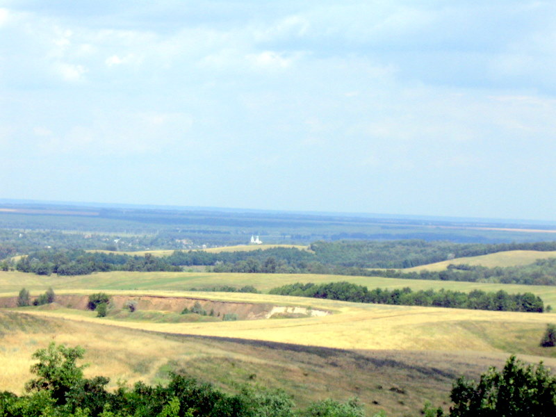 Kholodny Yar (literally "Cold canyon") canyon at the village of Holovkivka, Cherkasy region, central Ukraine